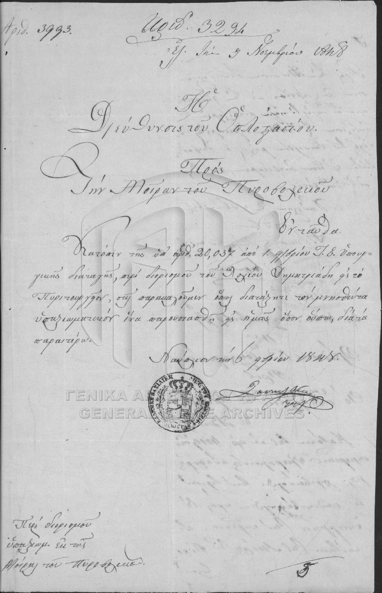 Letter from the Oplostasion tou Nafpliou, 1848